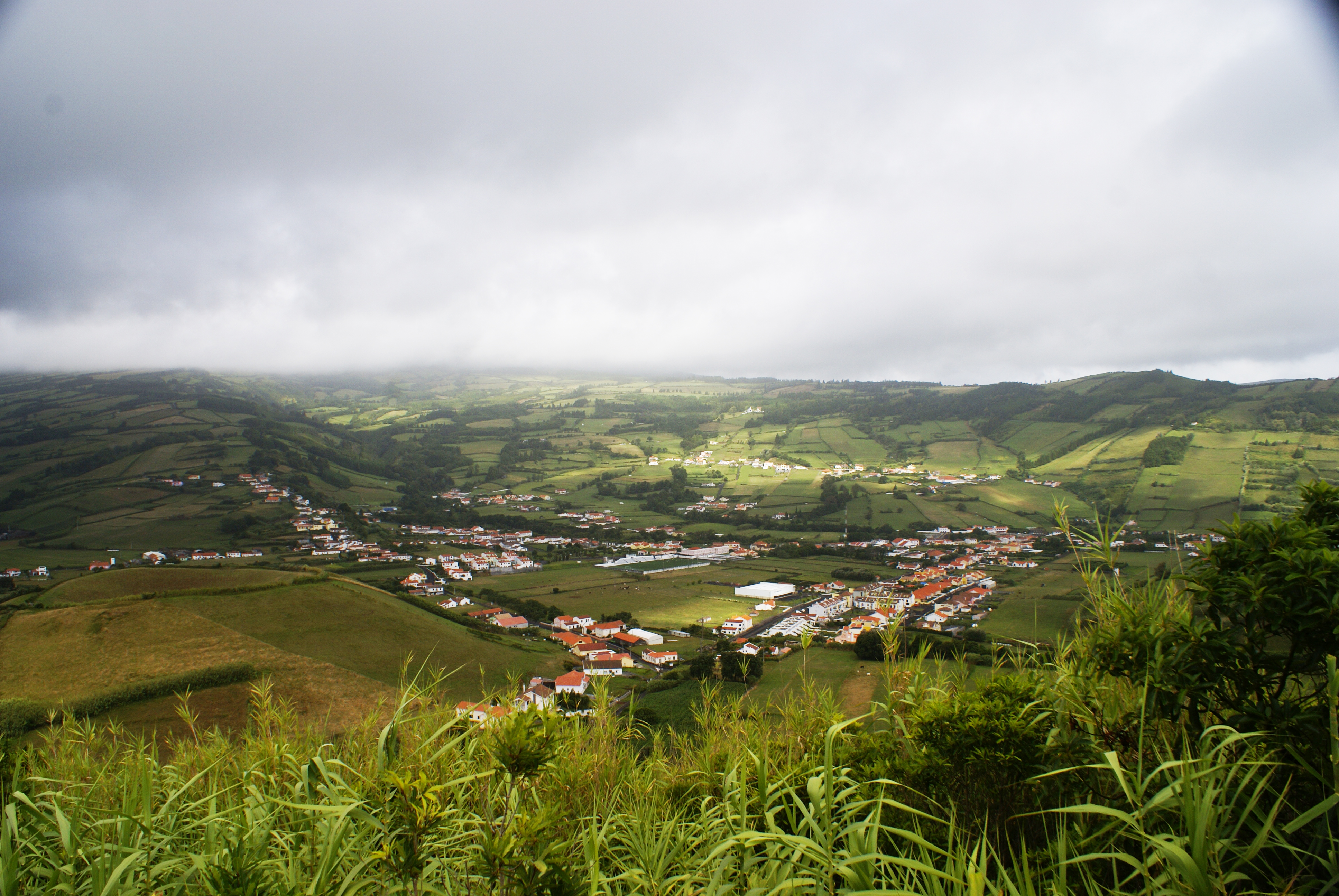 Miradouro do Monte Carneiro, Flamengos, vista, concelho da Horta, ilha do Faial, Açores, Portugal